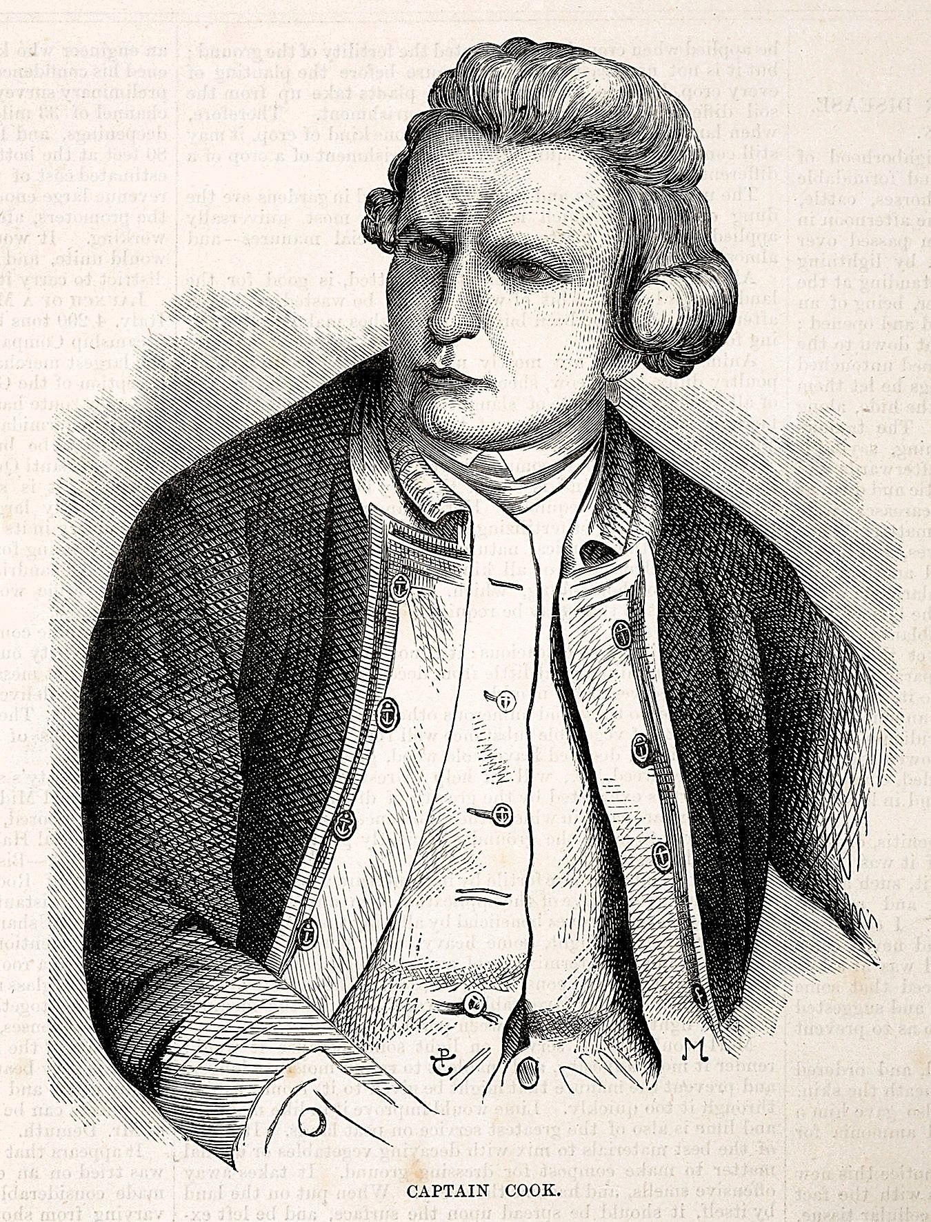 Captain Cook. Colonial portrait of the most famous explorer of the C18th. Engraving. Eugene Montagu (Monty) Scott (1835-1909) Cartoonist and illustrator, in London, migrated to Victoria in the 1850s and worked as a photographer. On 20 July 1859 in Melbourne he married Amy Johnson. In 1857-65 he contributed drawings and cartoons to the Illustrated Australian Mail, Illustrated Melbourne Post and Melbourne Punch. In 1866 Scott moved to Sydney as chief cartoonist for the Sydney Punch. In 1867 he received a 250 guineas commission for a portrait of the Duke of Edinburgh. He was established in a photographic salon in George Street and in the 1870s his large wood-engravings and lithographs of rugged outdoor scenes, formal functions and public personalities regularly enlivened the Illustrated Sydney News. Bankrupt in June 1870, Scott was forced to sell his photographic equipment to meet his creditors. In 1871 the Sydney Mail employed him as its first artist. From 1880 the Bulletin carried some cartoons and occasional engravings of local dignitaries by Scott. The Brisbane Boomerang, founded 1887, ran his cartoons until 1891 when he drew the first cartoons for the Queensland Worker, continuing as its chief cartoonist until 1909. In 1889 he had moved to Brisbane and on 5 December married a widow, Mary Ellen Price, née Mehan; he lived there four years. In the ensuing years Montagu received less work as photographic illustrations replaced engravings and lithographs.